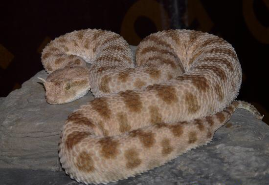 Vipères